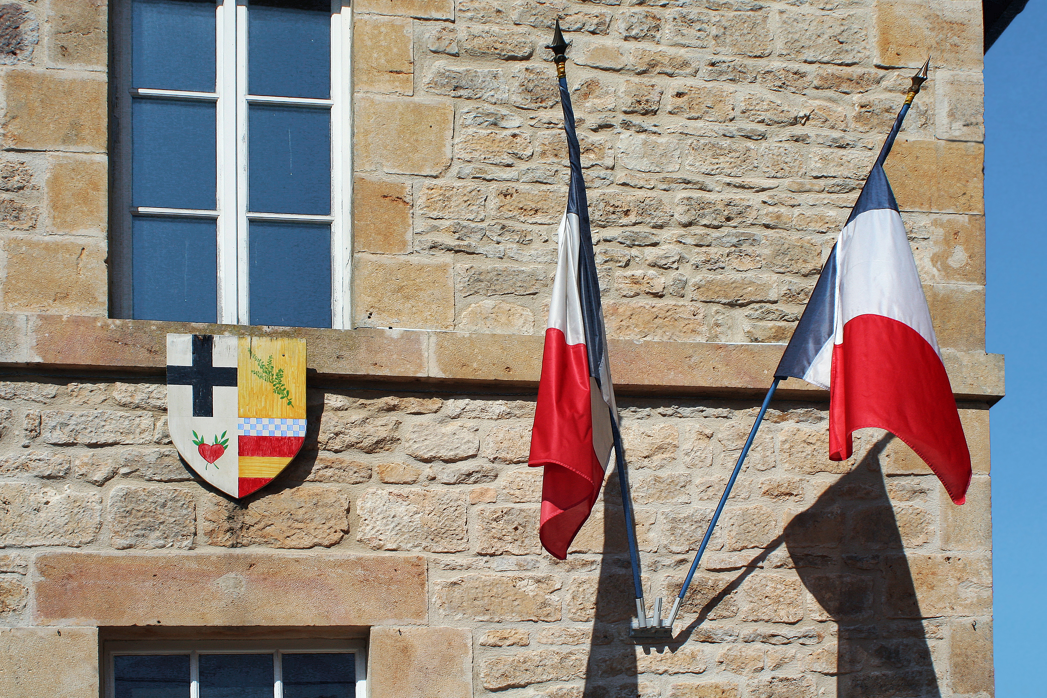 Blazon of Busseaut on the townhall's facade